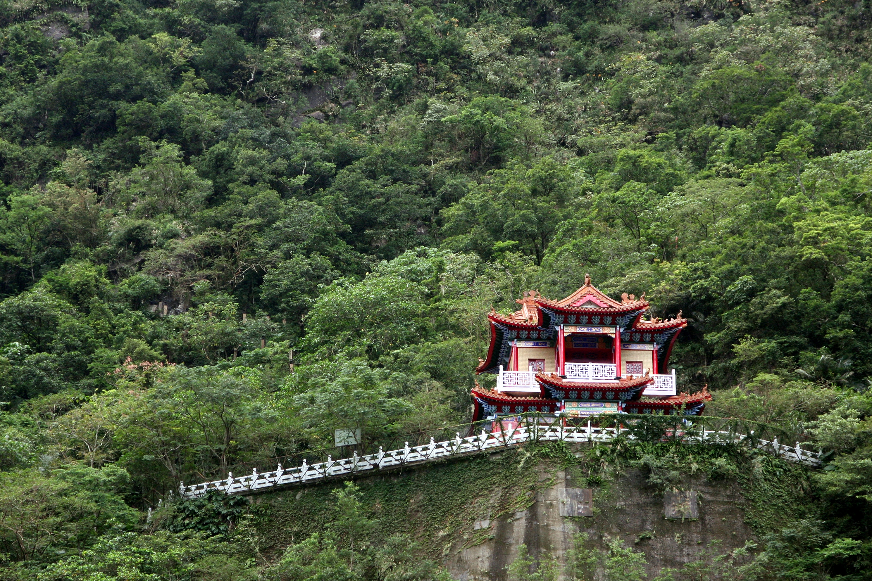 Kuanyin Temple in Taroko National Park, Taiwan